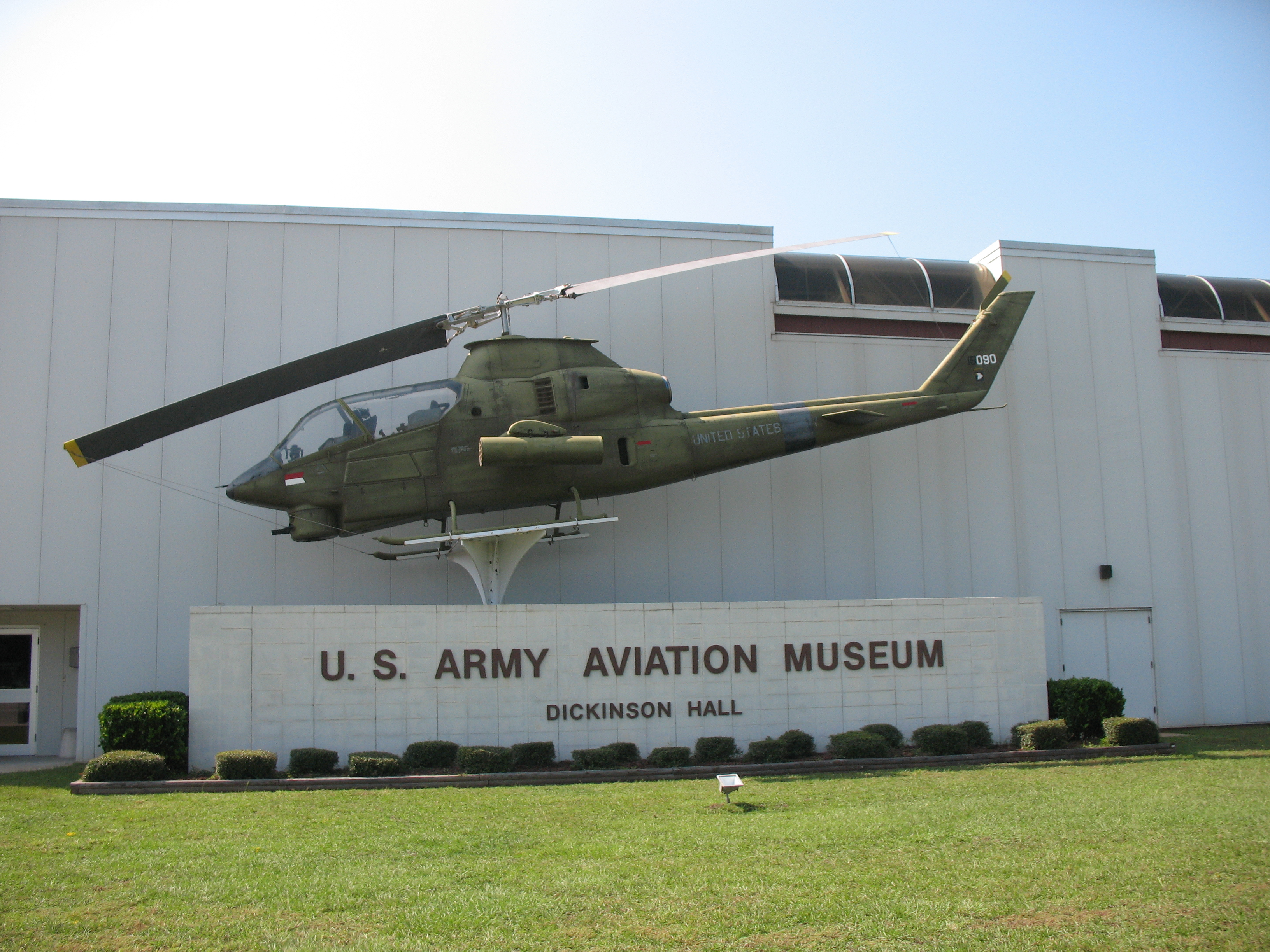 U.S. Army Aviation Museum (front Cobra)_3845